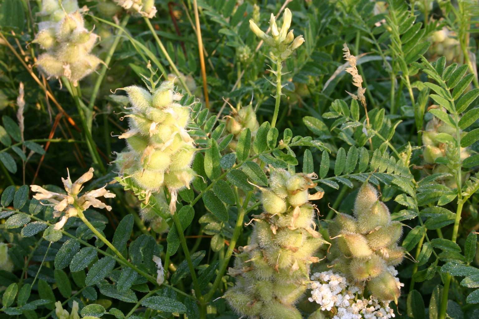 Astragalus cicer